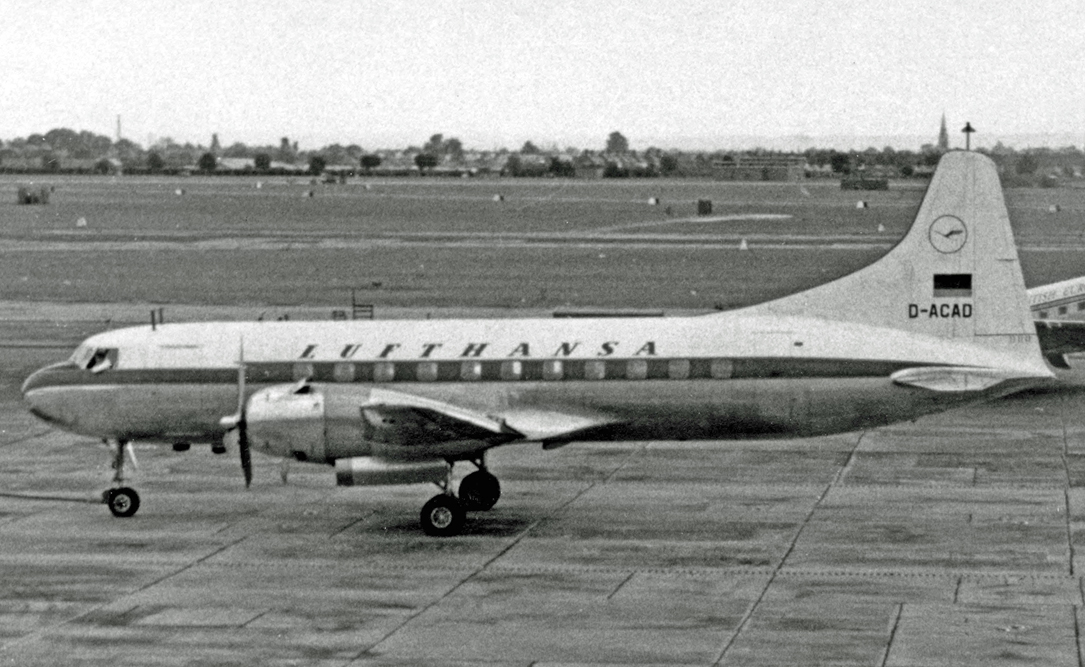 Lufthansa Convair 340 at London Heathrow Airport in 1955 wearing the airline's initial postwar colour scheme.